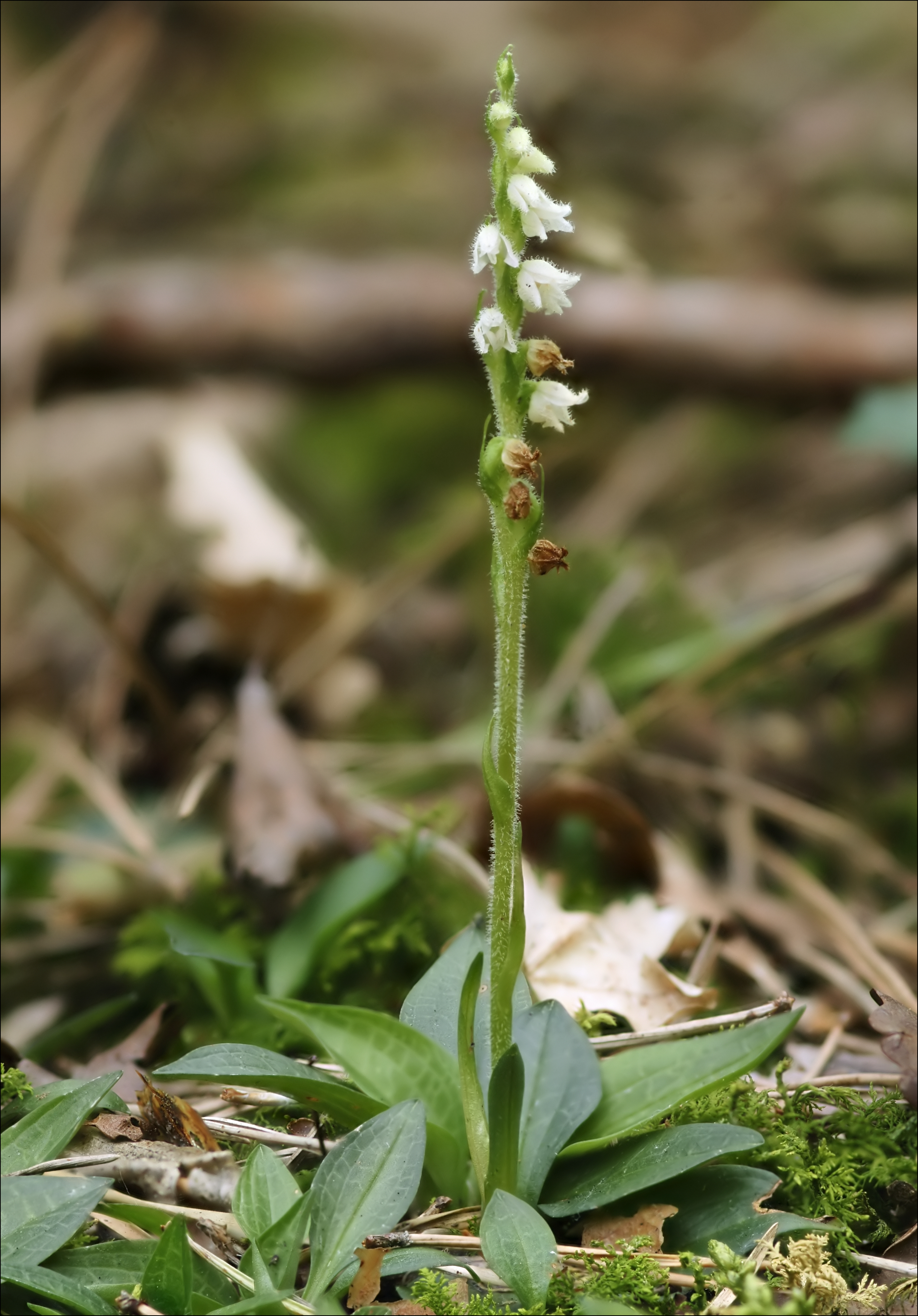 Creeping lady's tresses.Height = ~11 cm.